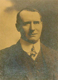 C H Chomley (1868-1942), 1889 Melbourne University Rowing Team